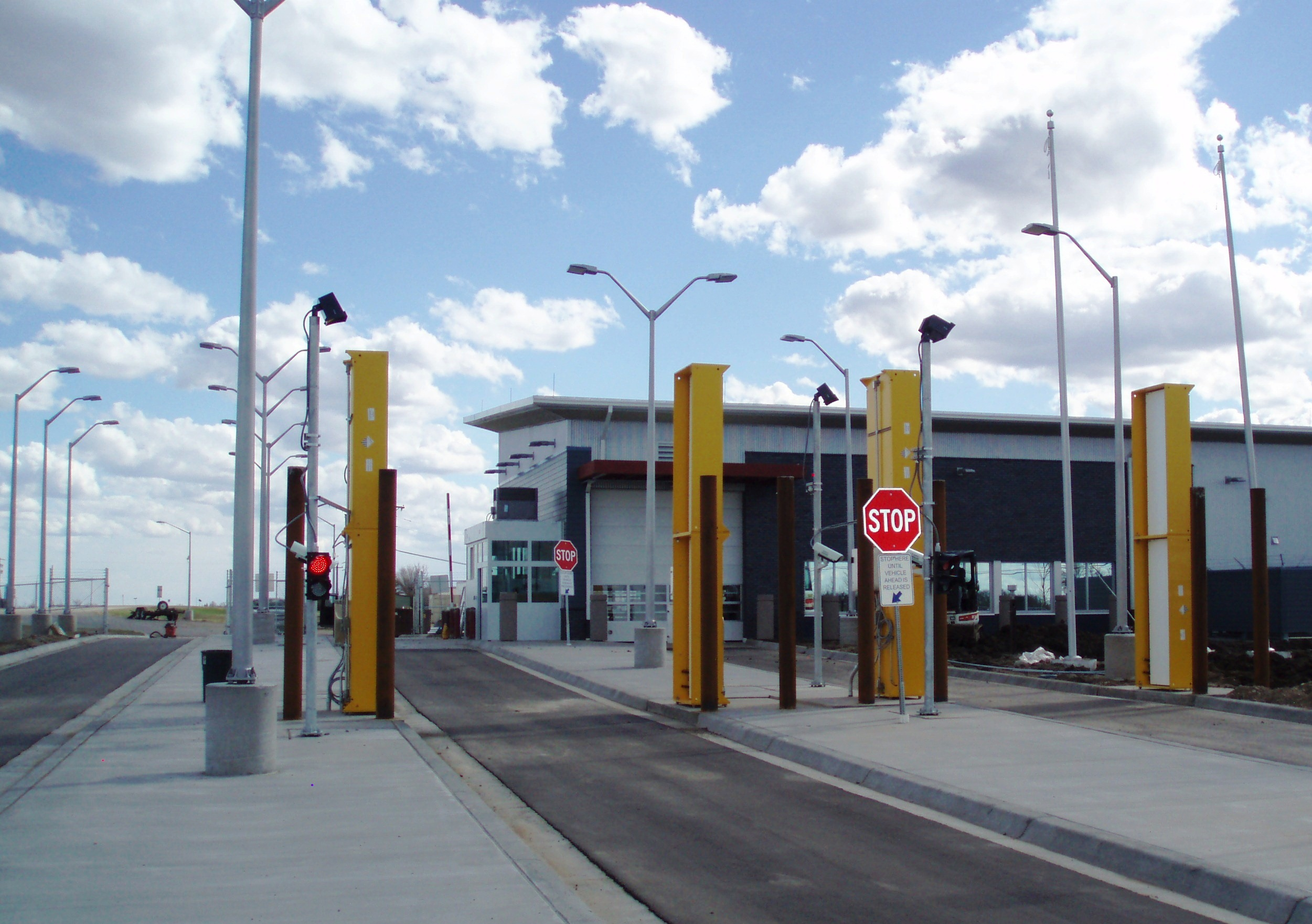 Construction of new US Border Inspection Station at Sherwood, ND